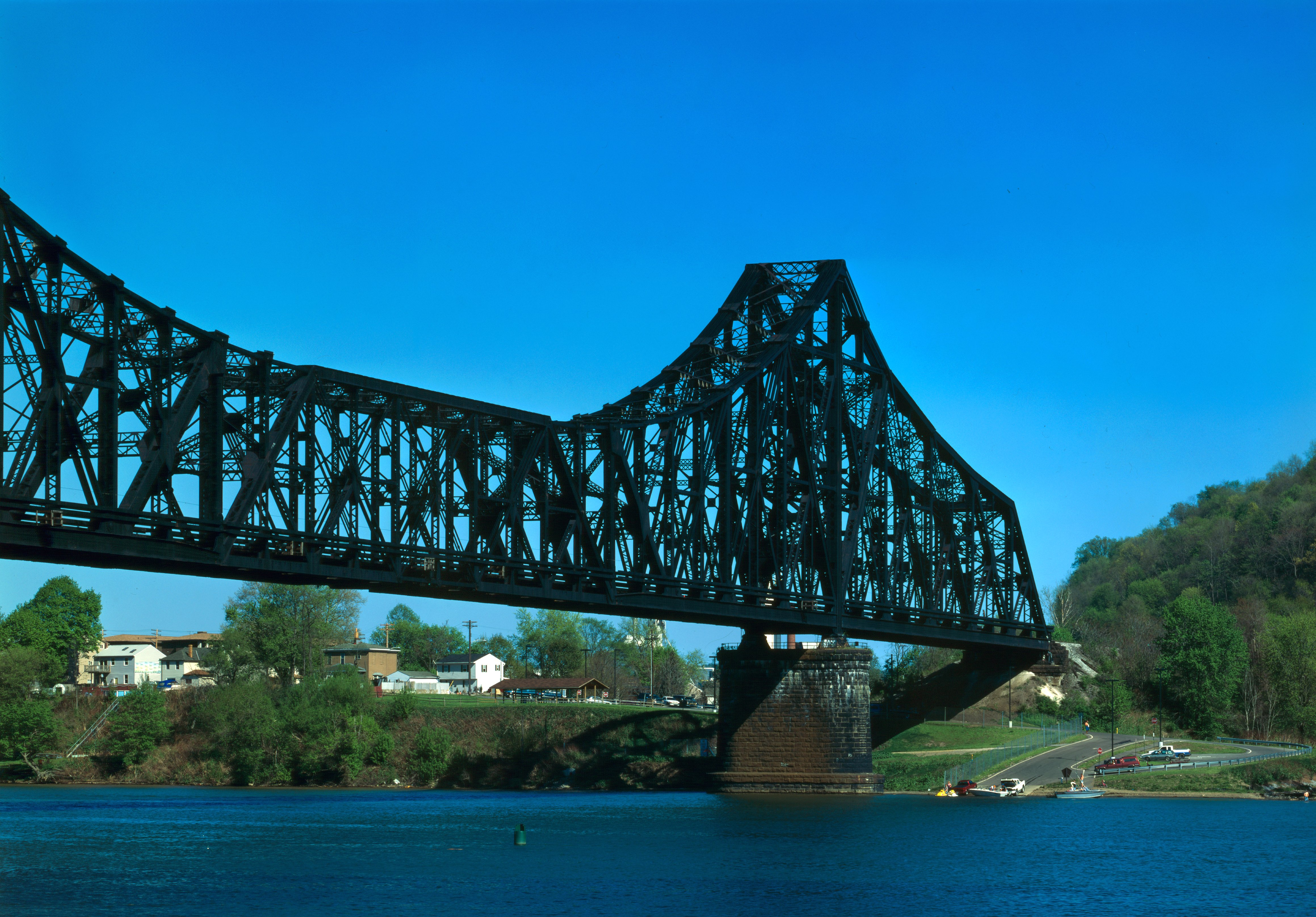 Beaver Bridge on the Ohio River, photo taken in 1999. Photo is taken from the Beaver (northern) end of the bridge, showing the Monaca (southern) end.